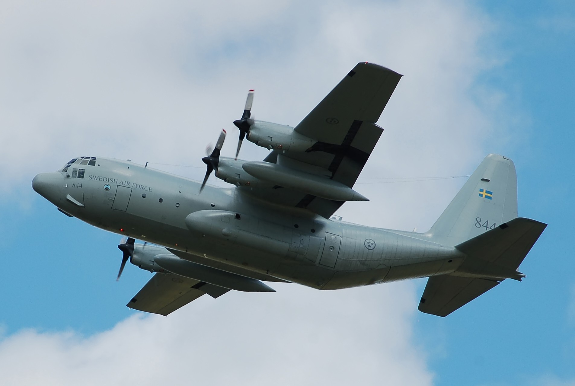 Swedish Air Force Hercules C-130H (code 844) departs the 2014 Royal International Air Tattoo, RAF Fairford, Gloucestershire, England.